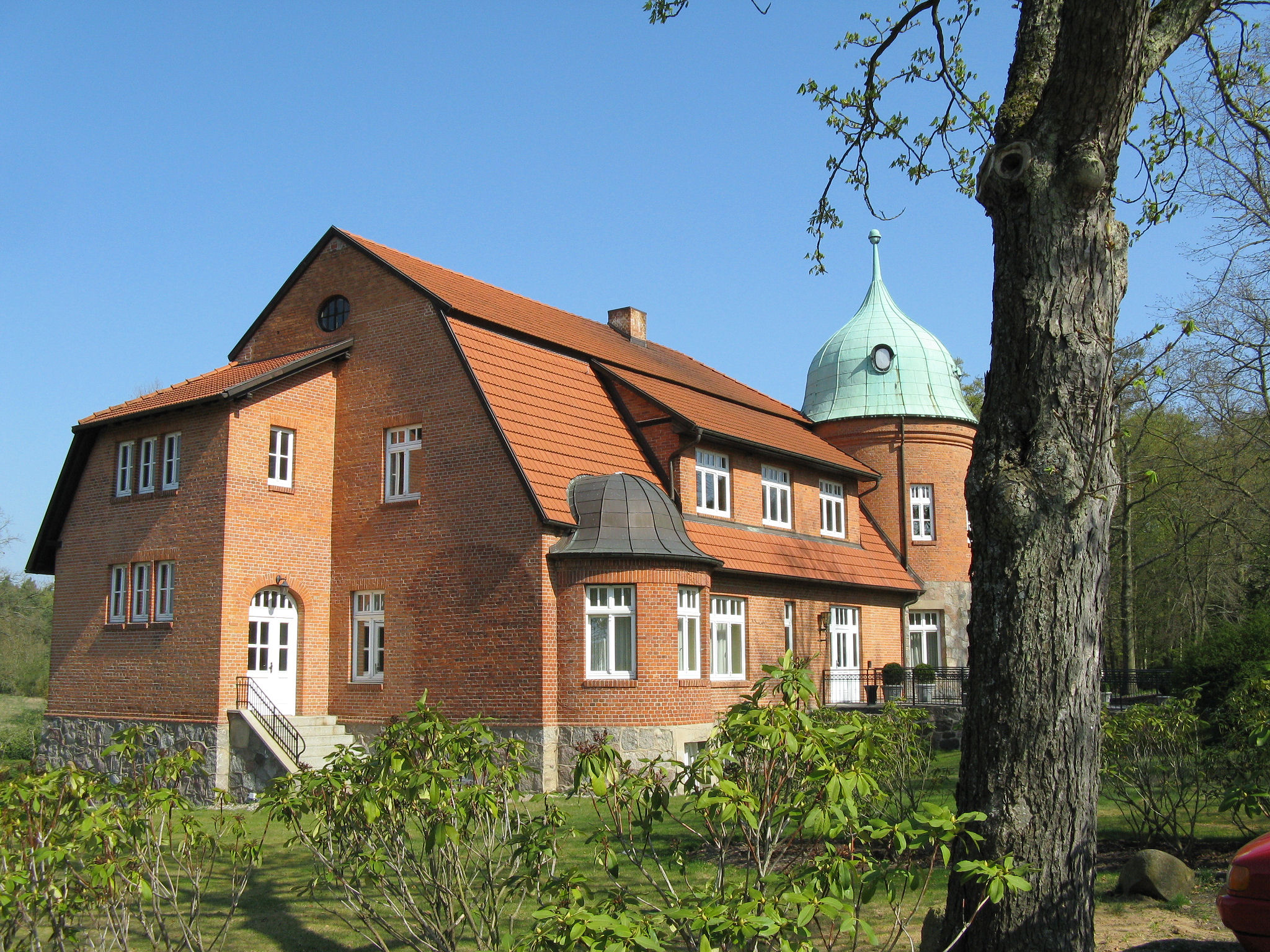 House next to the manor house (castle) Basthorst in Basthorst, disctrict Parchim, Mecklenburg-Vorpommern, Germany